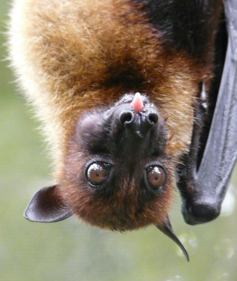 Pteropus vampyrus at Singapore Zoo